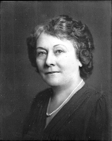 Photo of Gertrude Thanhouser.